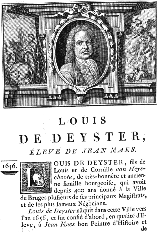 Book 3 of 4-volume painter biographies by Jean-Baptiste Descamps